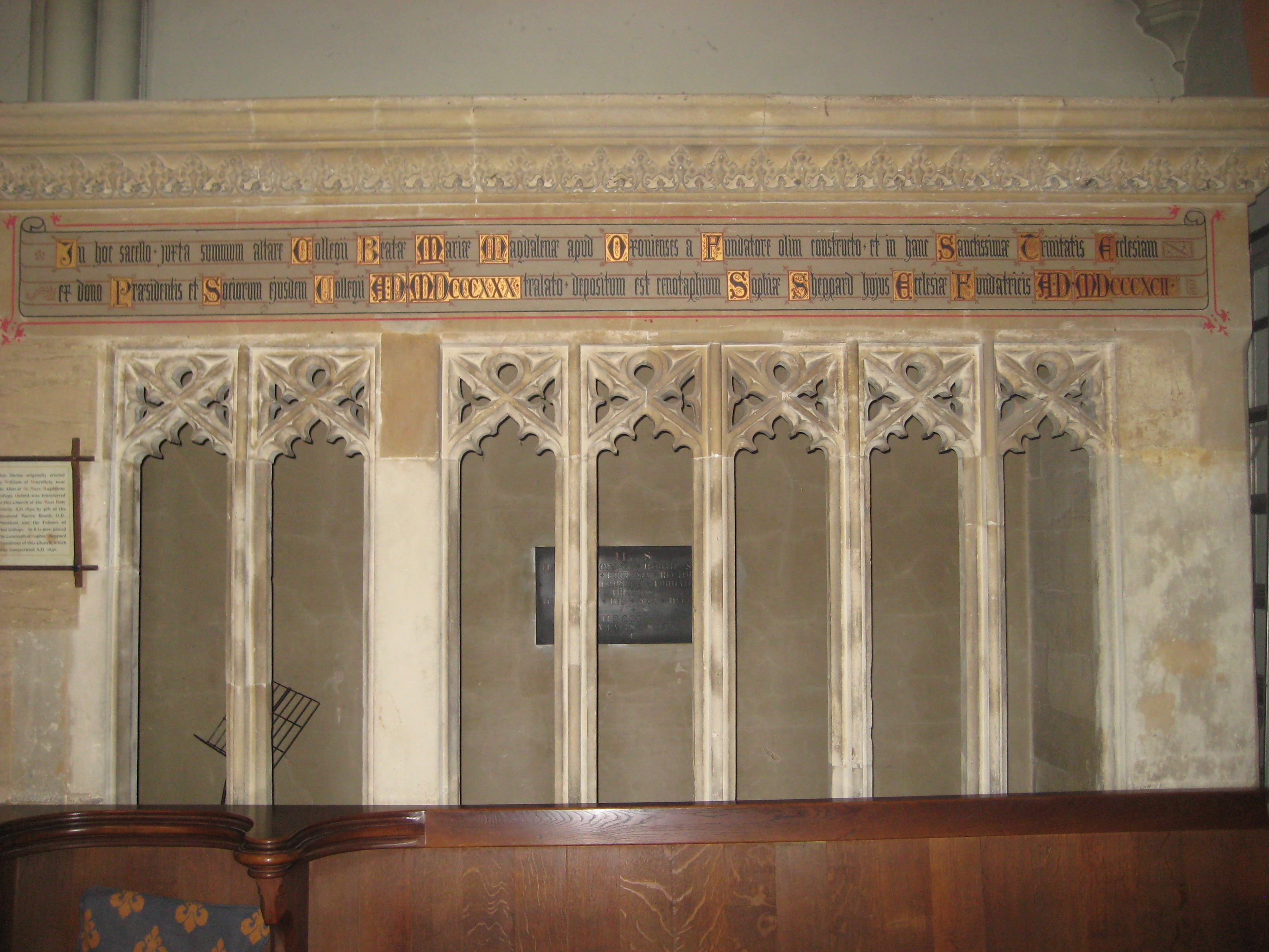 Side of the chantry chapel of William Waynflete at Holy Trinity Church, Theale, Berkshire.